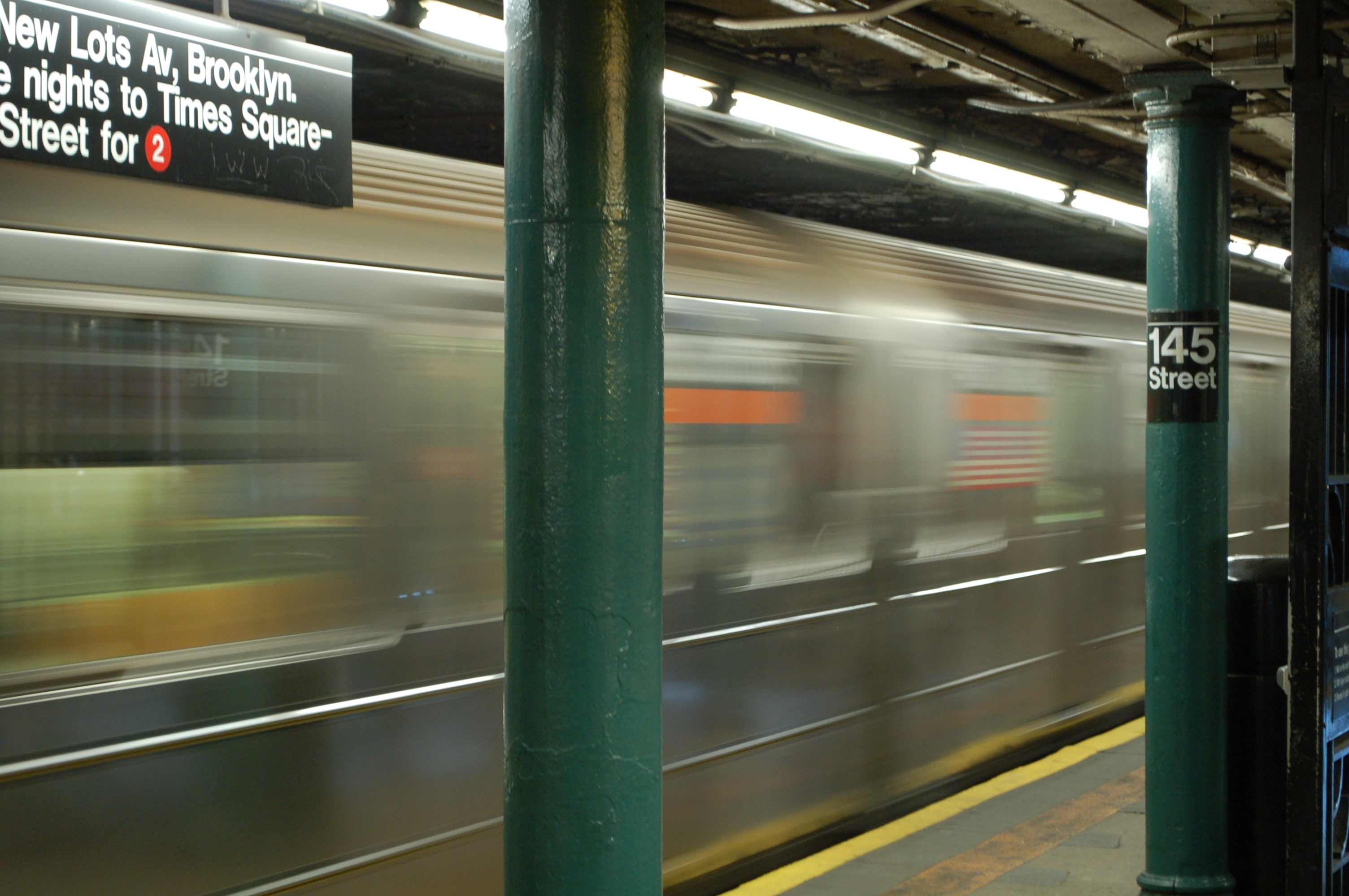 145th Street 3 Station in New York City